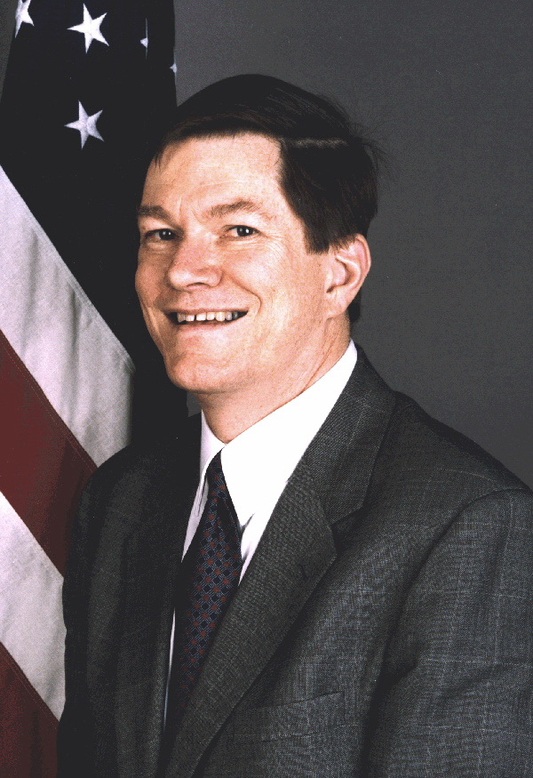 John M. Ordway. Prior U.S. Ambassador to Kazakhstan and Armenia. Source GIF file converted to JPEG and color-corrected by contributor.